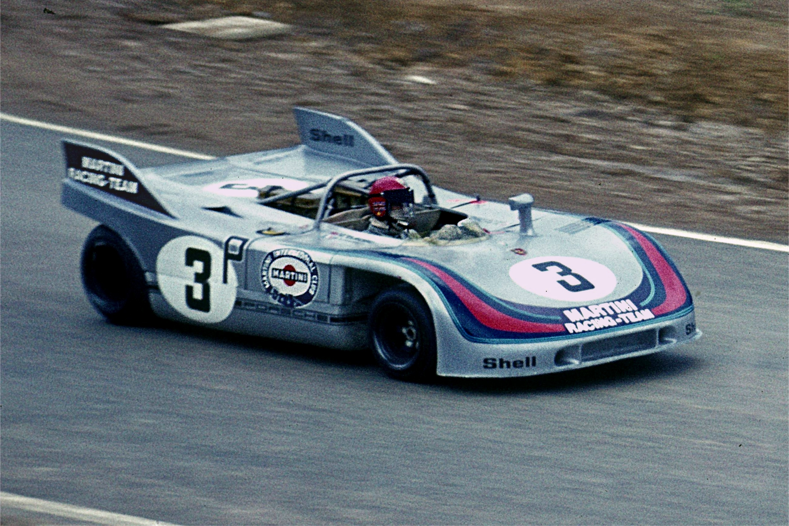 Vic Elford with Porsche 908/3 during practice for 1000 km race at Nürburgring.